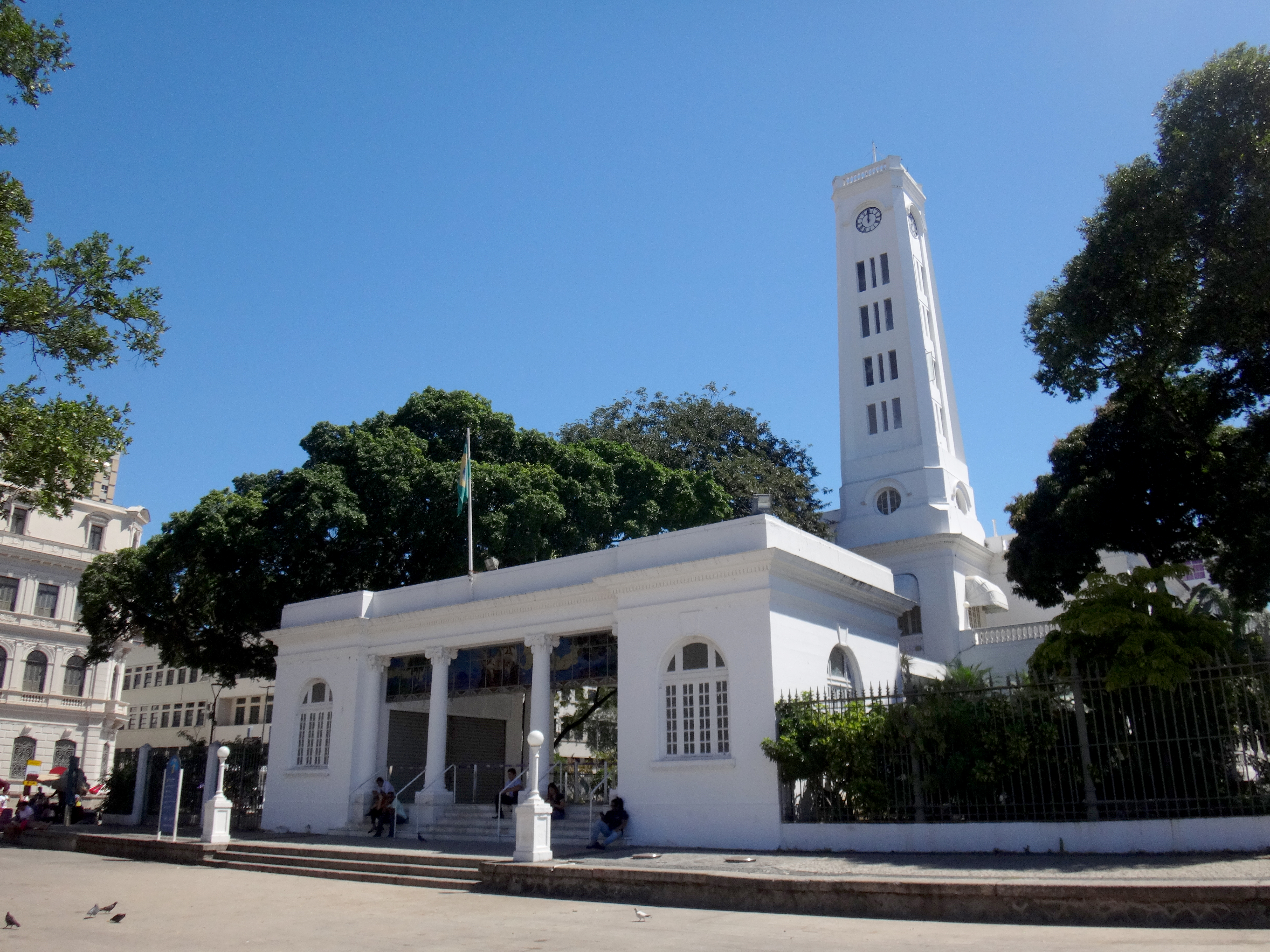 Old Passenger Station of Rio de Janeiro